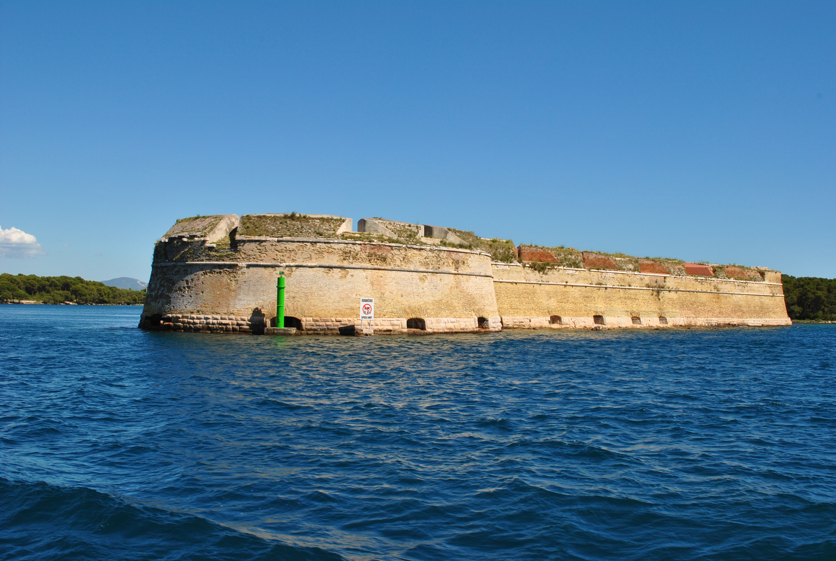 Šibenik - Sv. Nicholas Fortress